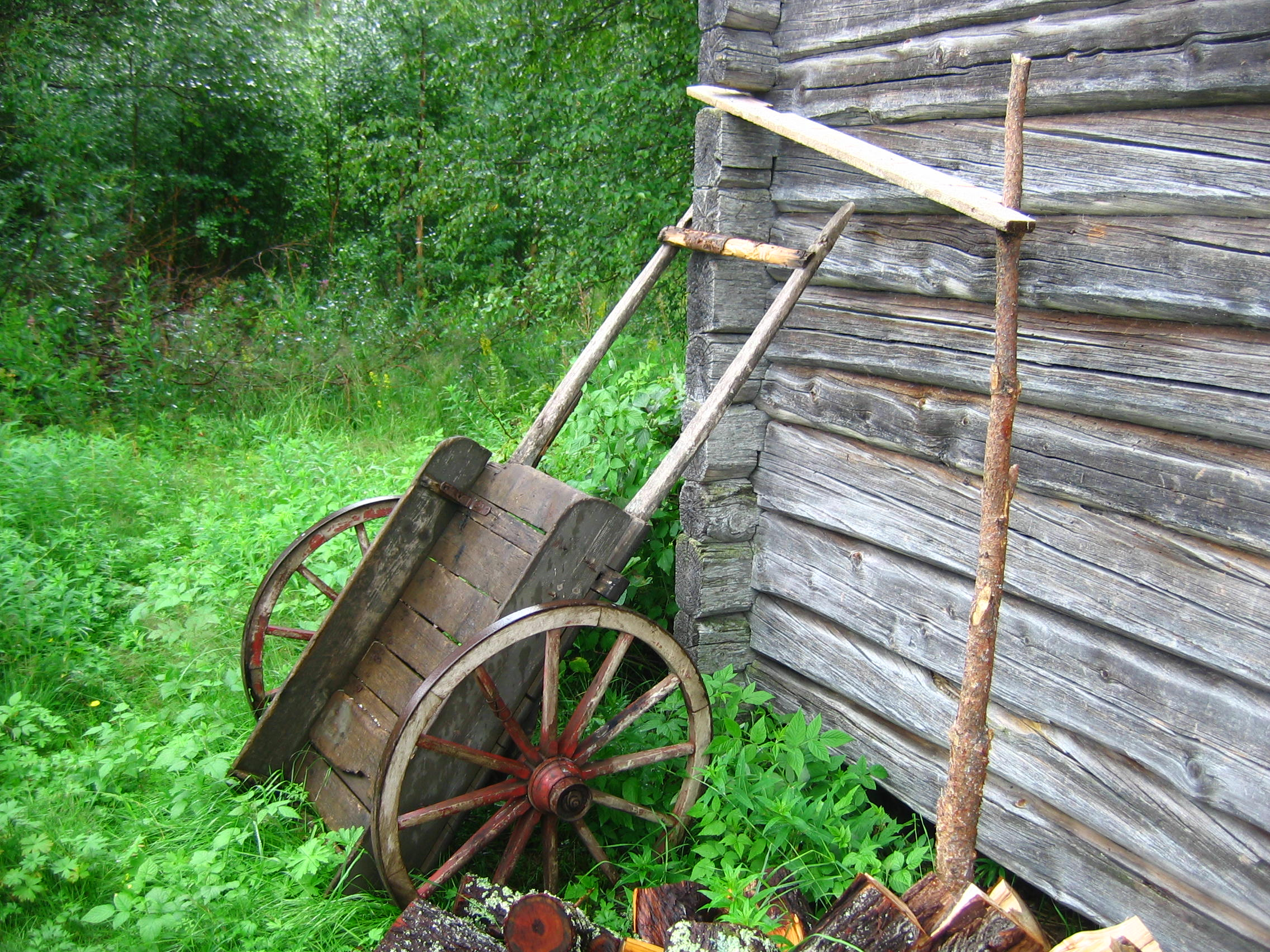 Old small horse cart from Utajärvi, Finland.